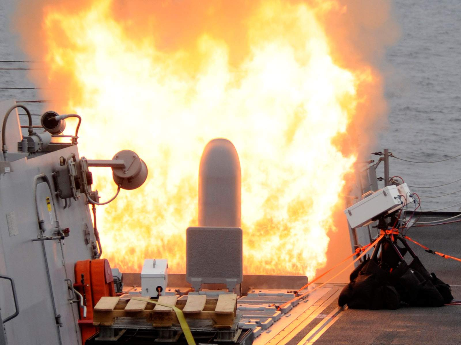 100622-N-0775Y-043 SAN DIEGO (June 22, 2010) A Tomahawk missile launches off the aft vertical launching system aboard the guided-missile destroyer USS Sterett (DDG 104). Sterett is conducting a weeklong training exercise to test its tactical weapons systems in preparation for its upcoming deployment. (U.S. photo by Mass Communication Specialist 1st Class Carmichael Yepez/Released)